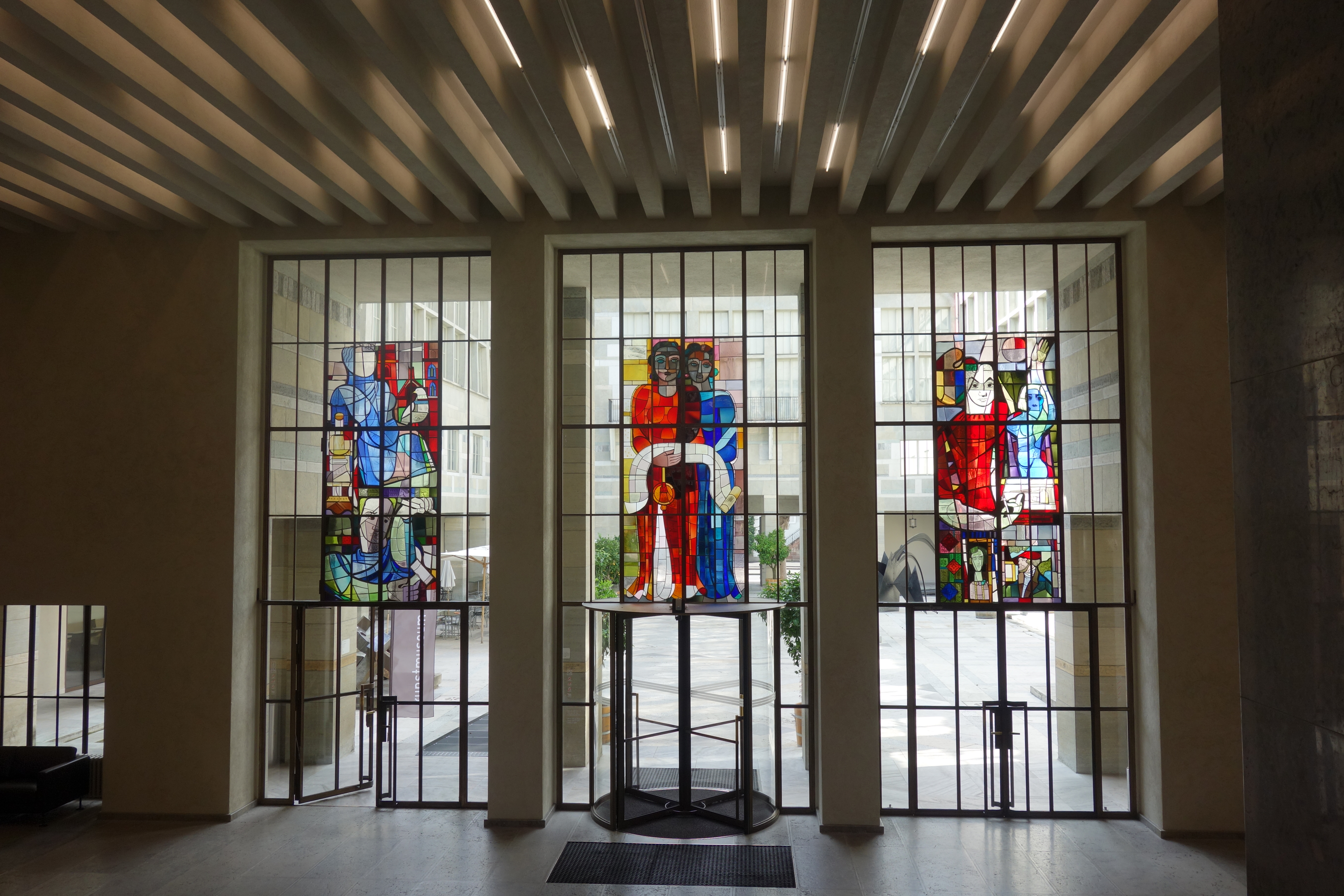 Entry doors of Kunstmuseum Basel, 2017. Glass works by Charles Hindenlang and Otto Staiger